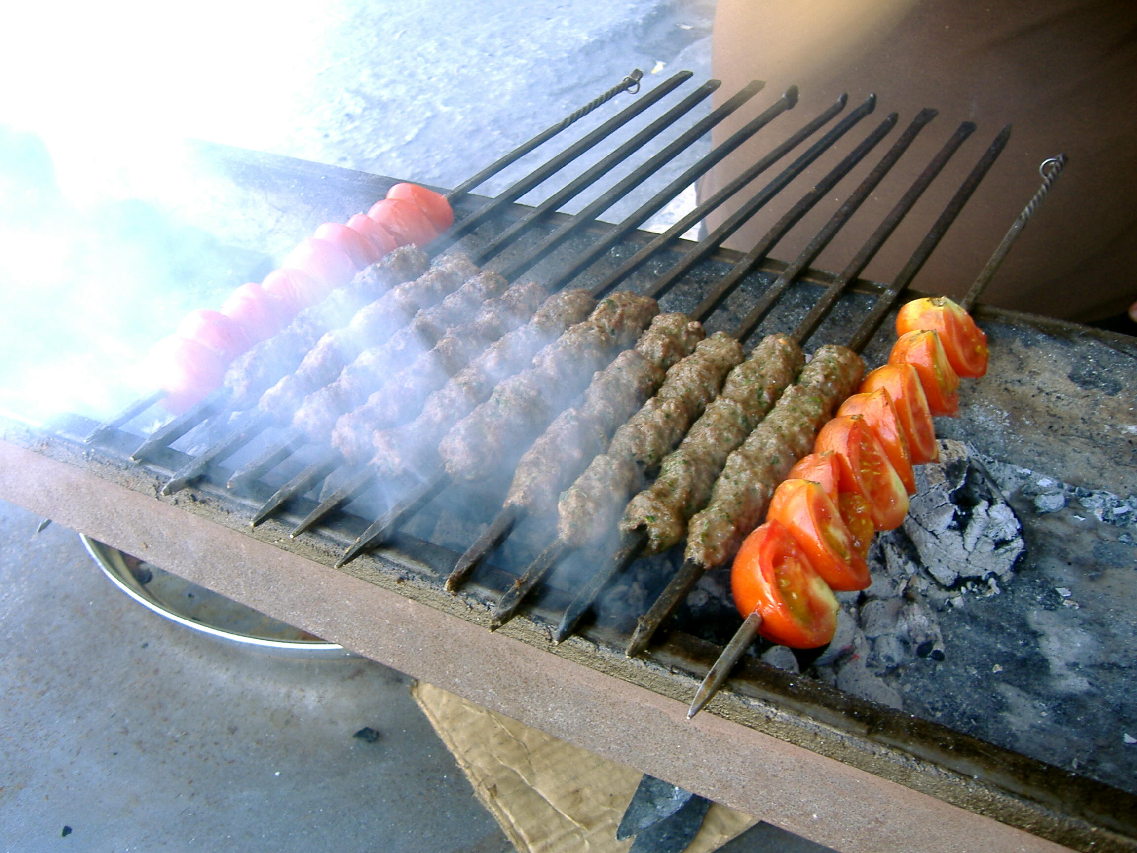 Kebap in Ramallah (West Bank)